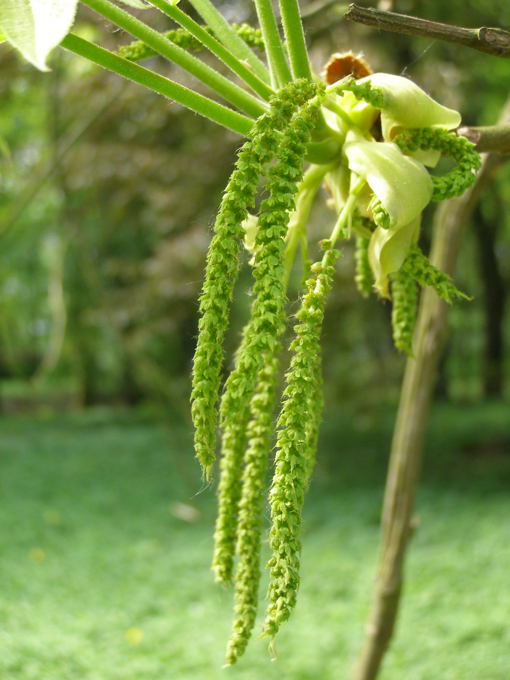 Kórnik - Arboretum - Shellbark hickory (Carya laciniosa)